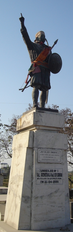 self created